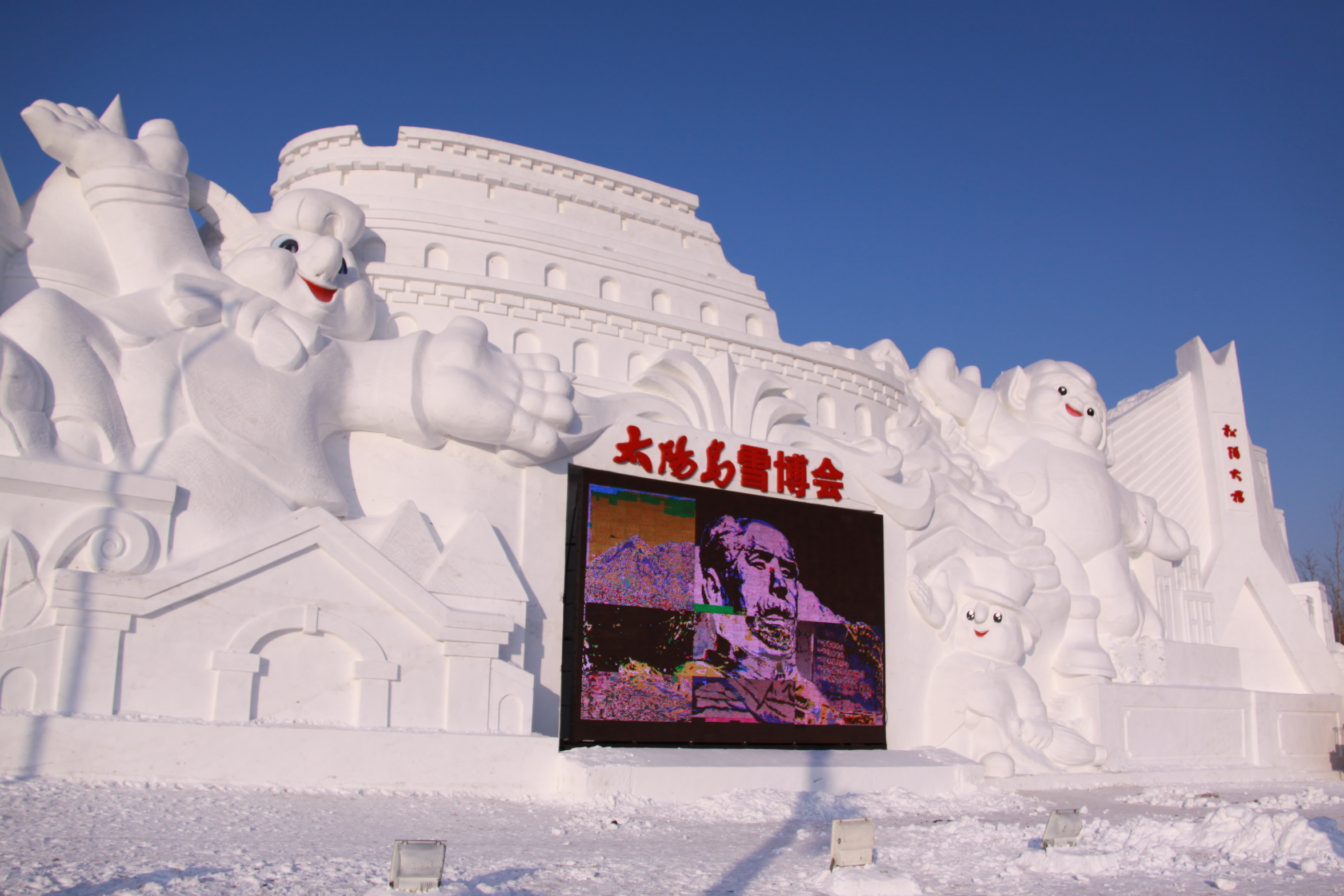 2011 Harbin International Snow Sculpture EXPO, held in Sun Island Park.